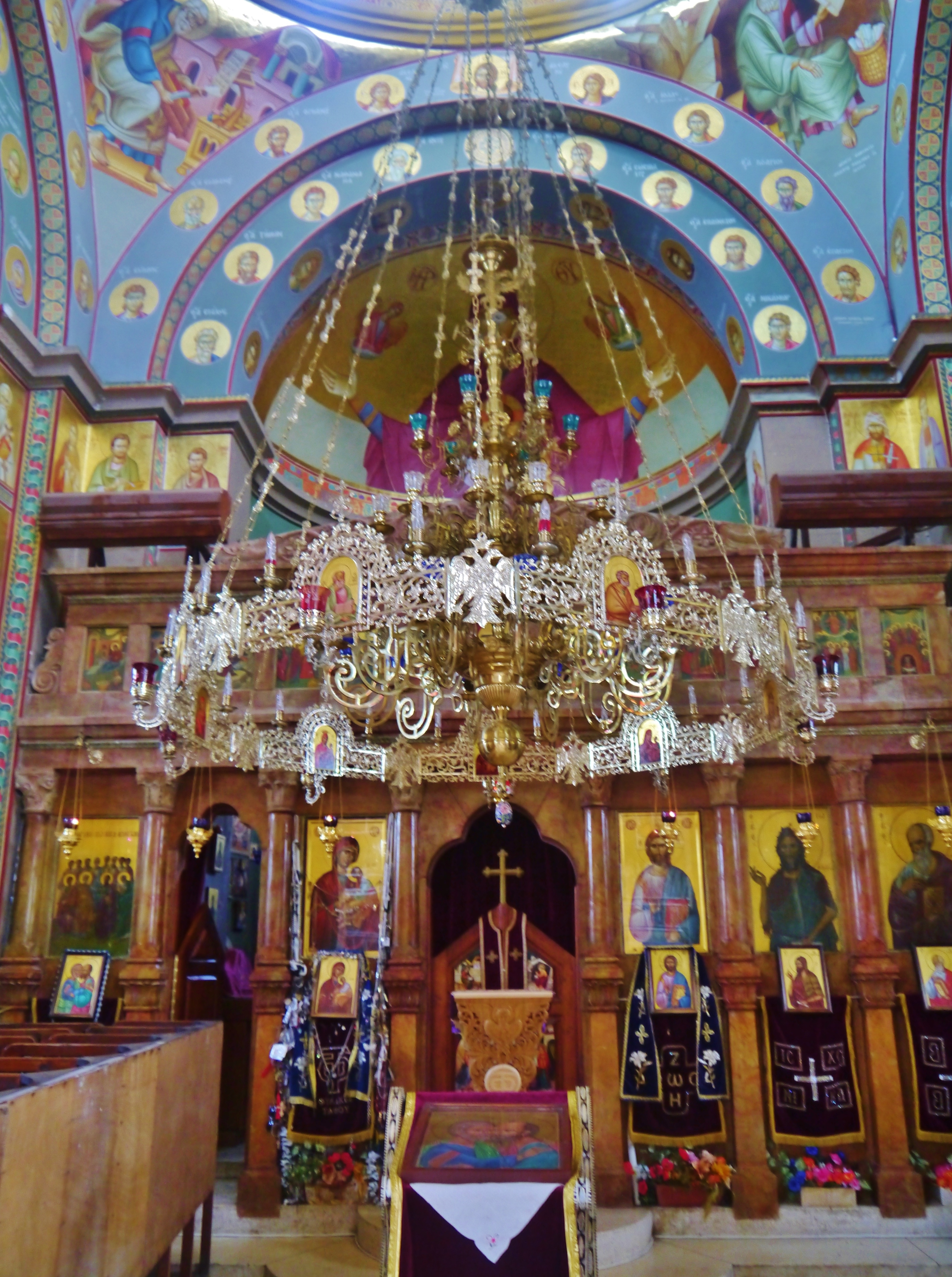 Iconostasis of the Greek Orthodox Church of the Seven Apostles, Capernaum, Israel